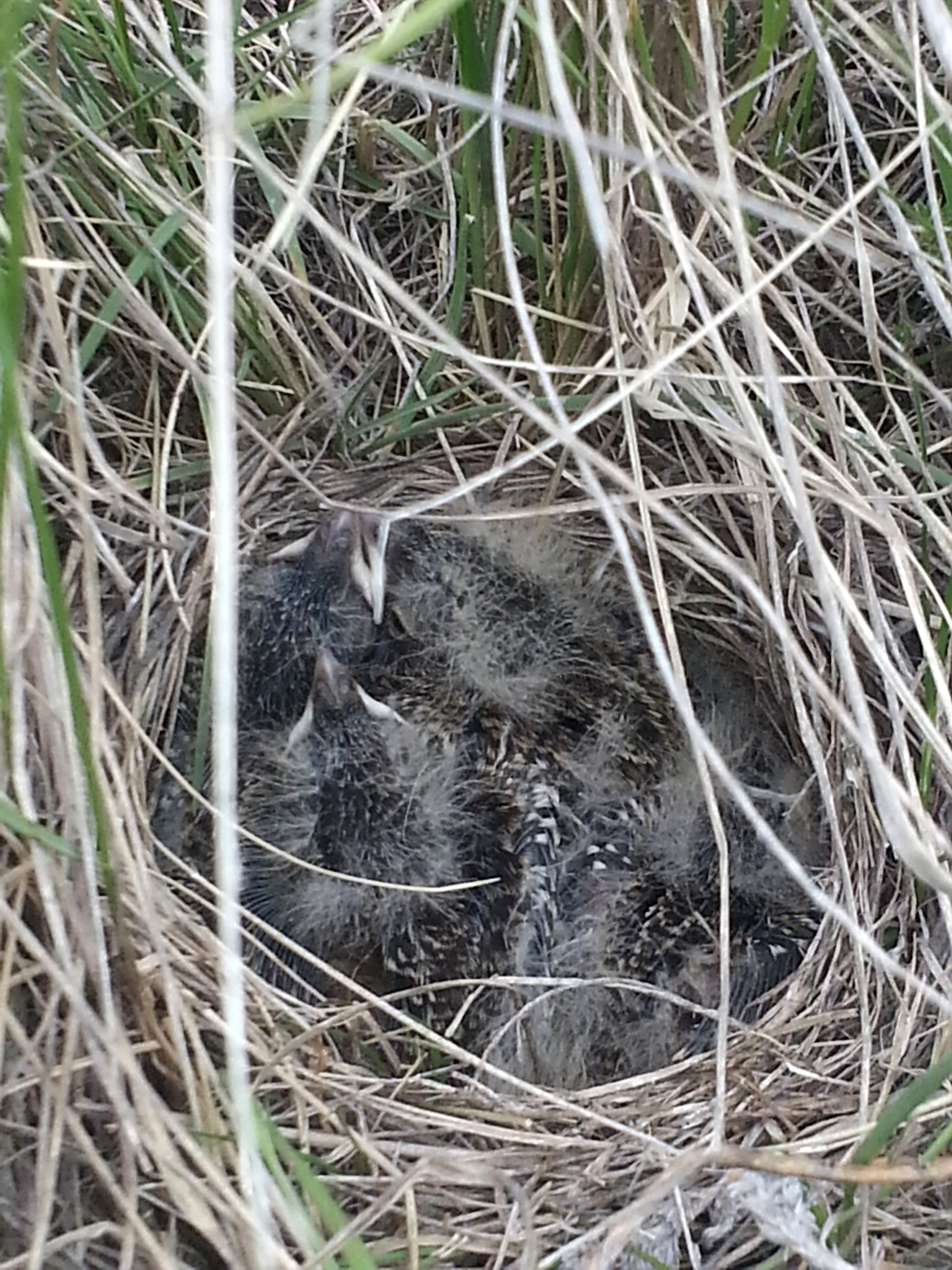 Chestnut-collared Longspur, Calcarius ornatus, baby birds in nest. These babies are ready to leave the nest soon, they have fresh new feathers, with only a few tufts of down here and there. Soon they will be out of the nest and official fledglings. Chestnut-collared Longspurs nest on the ground in grasslands. NOTE: This nest was photographed as part of a nest monitoring project in the oil fields of Alberta, Canada by a professional trained in viewing sensitive nests and minimizing the disturbance to the birds and the surrounding vegetation. Photographing nests simply to "snap a cute pic" can expose them to predators and disrupt the feeding and care of nestlings!